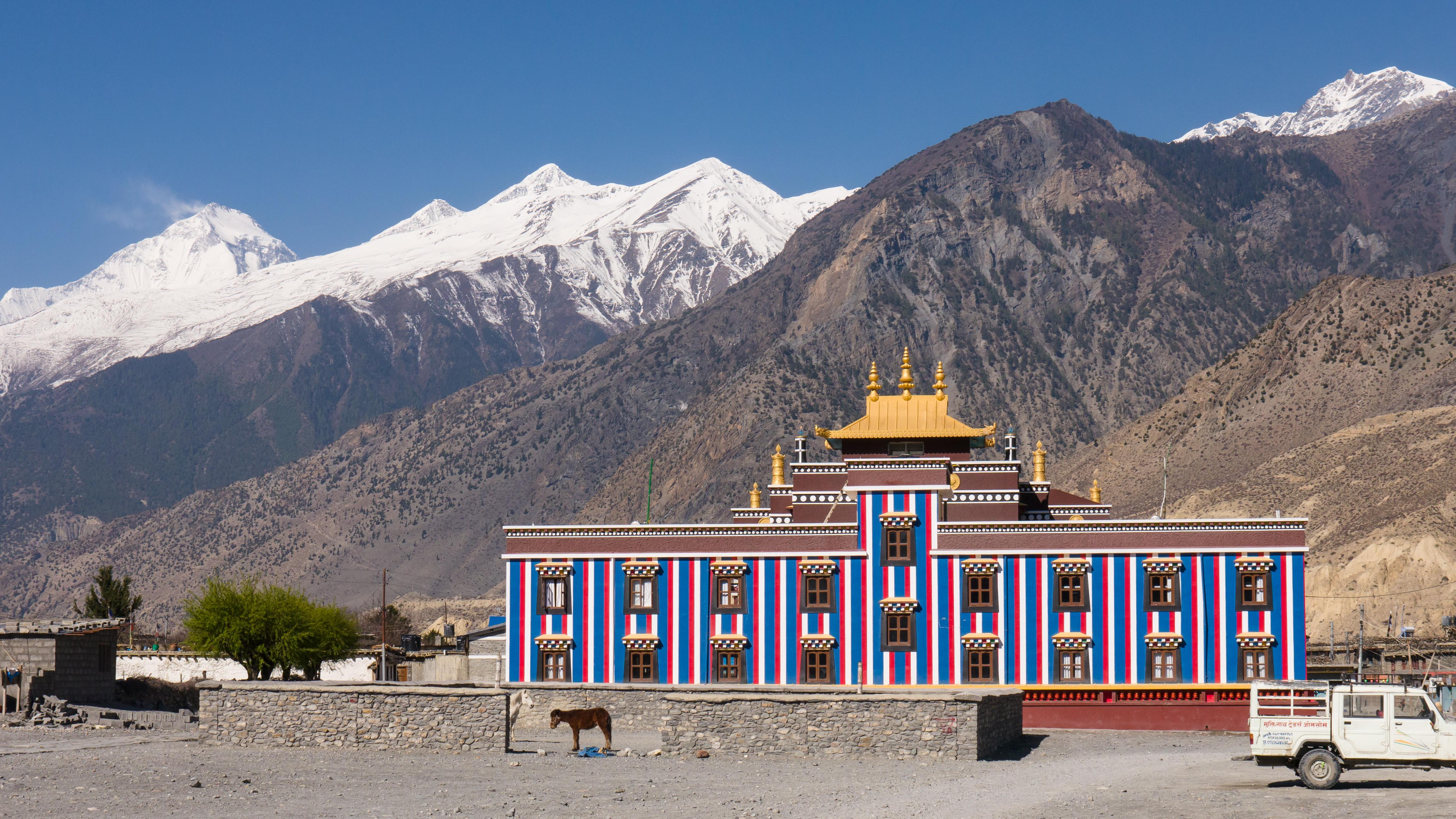 A brightly painted gompa dominates the northern approach to Jomsom.